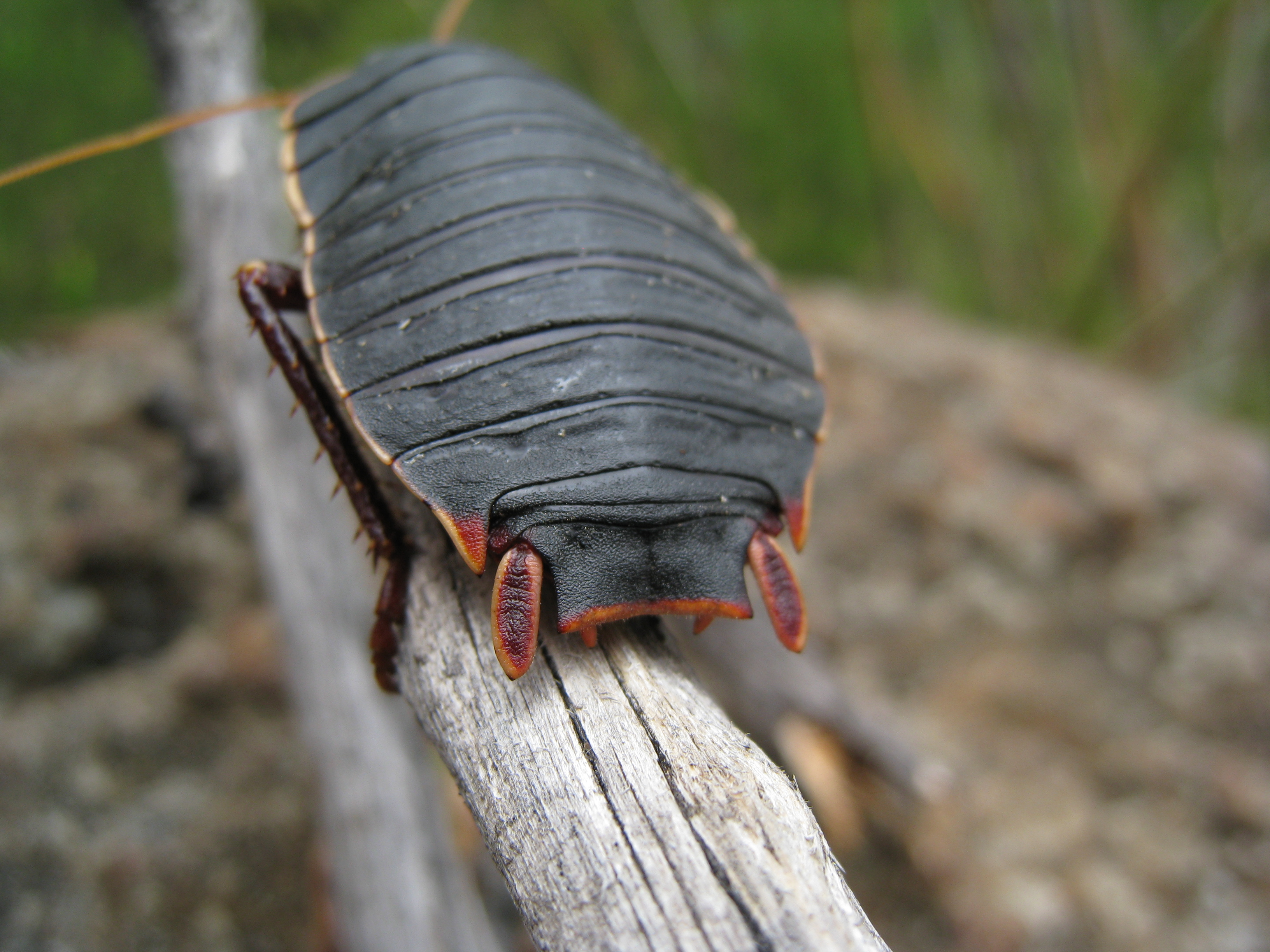 Polyzosteria limbata. Dharawal Nature Reserve, NSW Australia, January 2011.